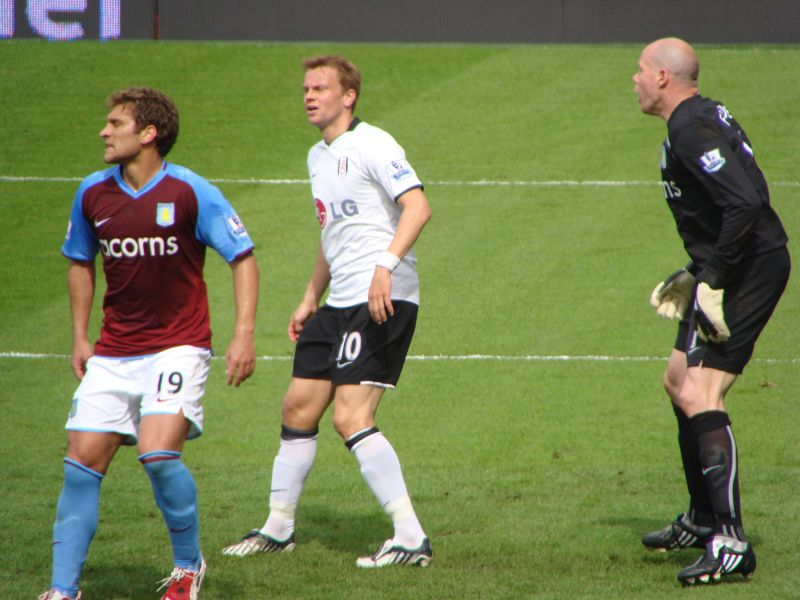 Stylian Petrov, Eric Nevland and Brad Friedel